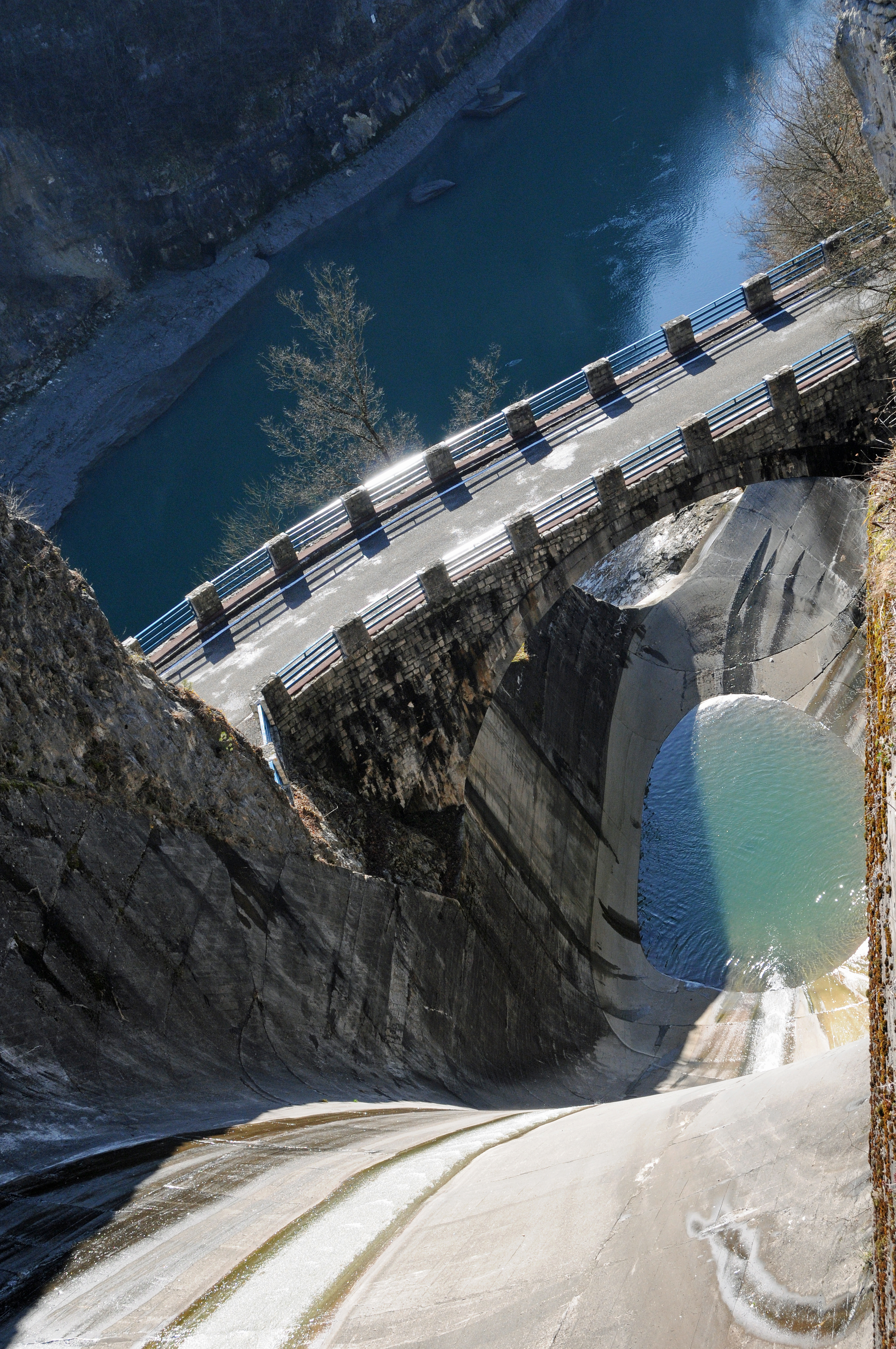 Ski jump of the right bank surface spillway